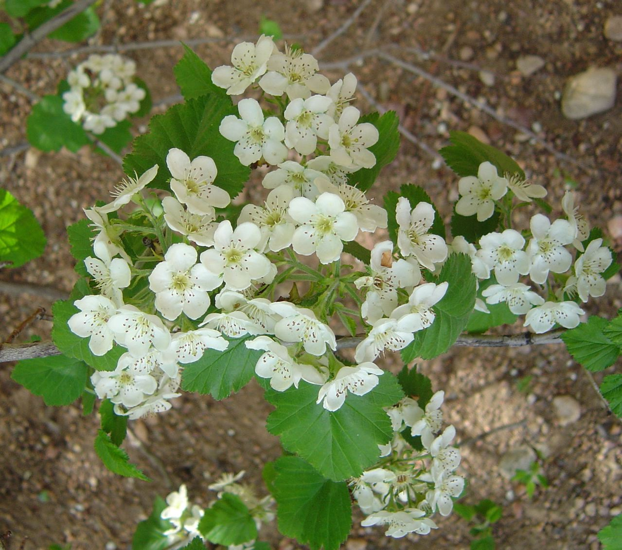 Tree cultivated on the University of Colorado campus, Boulder, Colorado